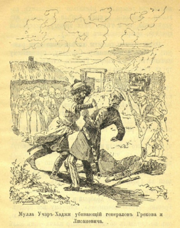 Kumyk-Chechen molla Uchar-haji killing two Russian generals during the Caucasian War